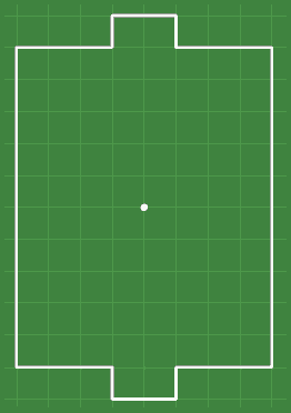 Field diagram for the Paper Soccer game.